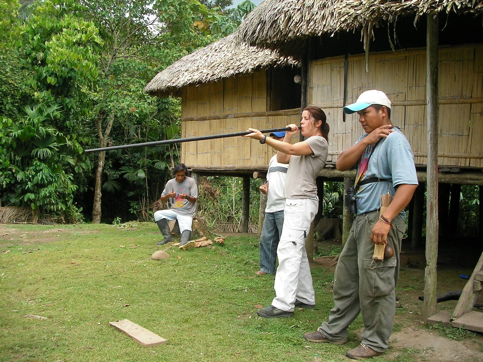 Demonstration of a typical Ecuadorian blowgun